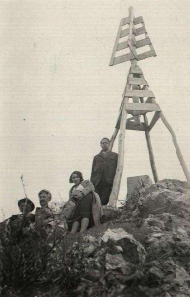 Aida (Meckovets) Peak, Bulgaria (859, 3 m)